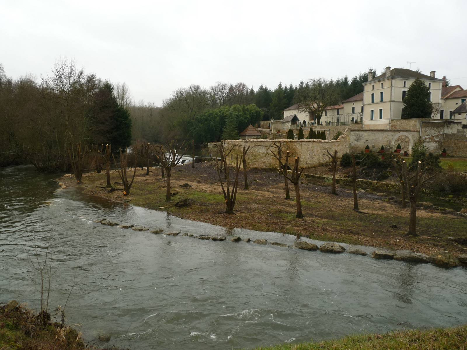 Bonnieure river at Puyréaux in winter, Charente, SW France